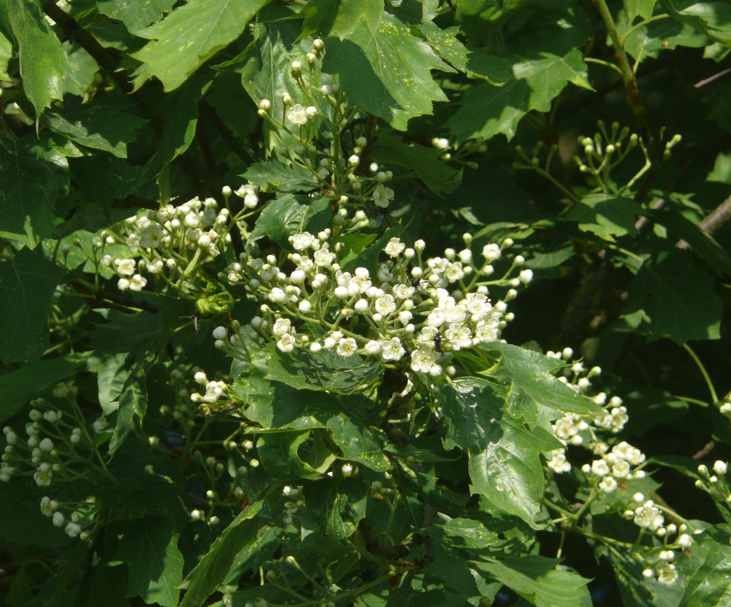 Sorbus torminalis,Mainfranken